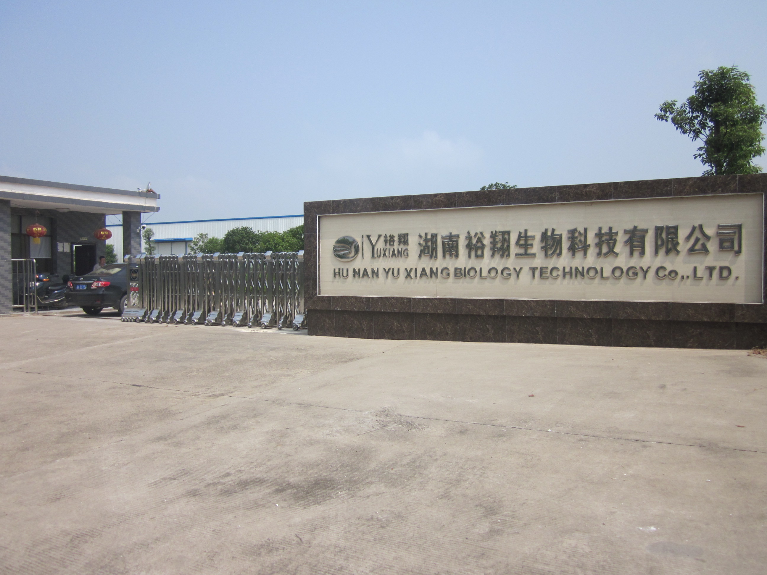 Liuyang Industrial Park (Chinese: 浏阳工业园) is an industrial park established by the government of the People's Republic of China in 1997 to foster scientific and technological development.